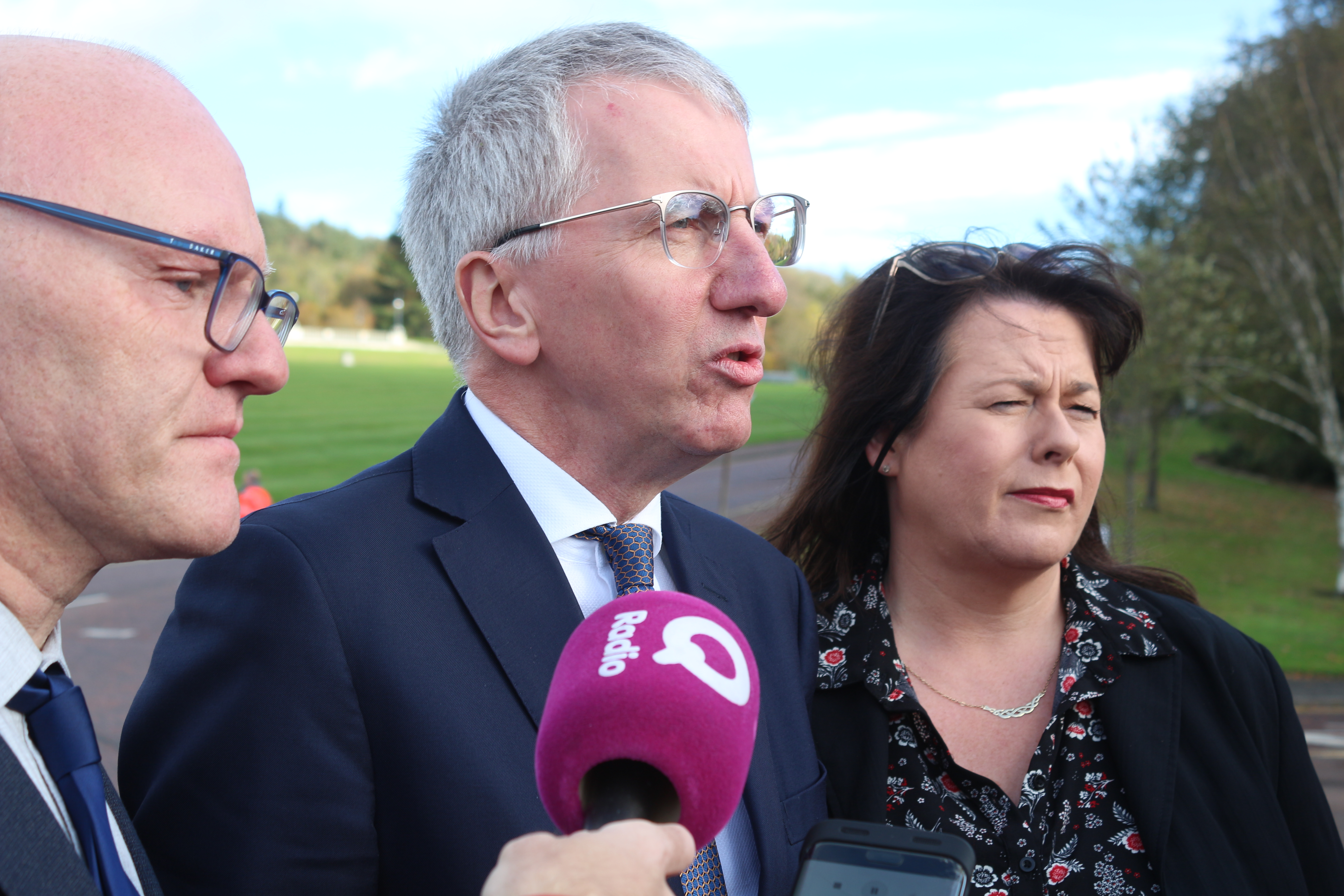 'Boris, Theresa & Jacob' joined a Brexit protest today at Stormont against the reckless Tory/DUP Brexit agenda whilst MPs Paul Maskey, Michelle Gildernew and MLA Máirtín Ó Muilleoir delivered letters to British government officials calling on them to end their toxic relationship with the DUP.